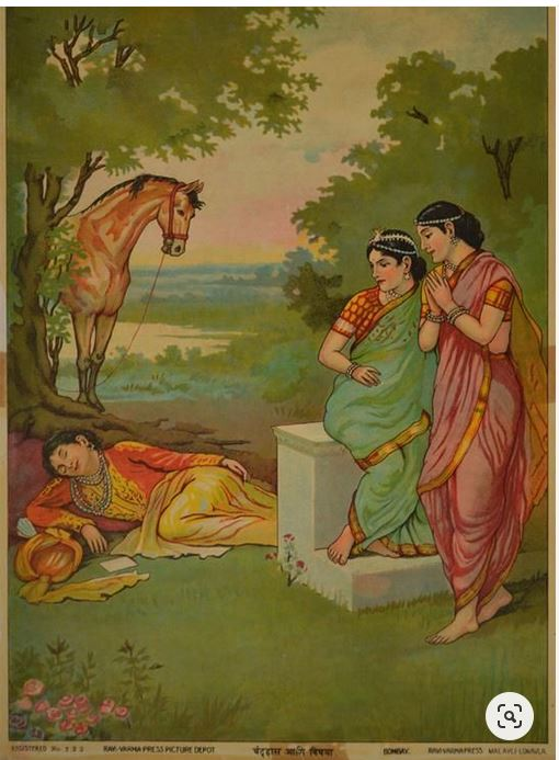 Raja Ravi Varma Press - Chandrahas & Vishya - Reg No - 732 Printed at Ravi Varma Press, Malavli-Lonavala Published By Ravi Varma Press Picture Depot, Bombay Artist Unknown This work will be shipped mounted